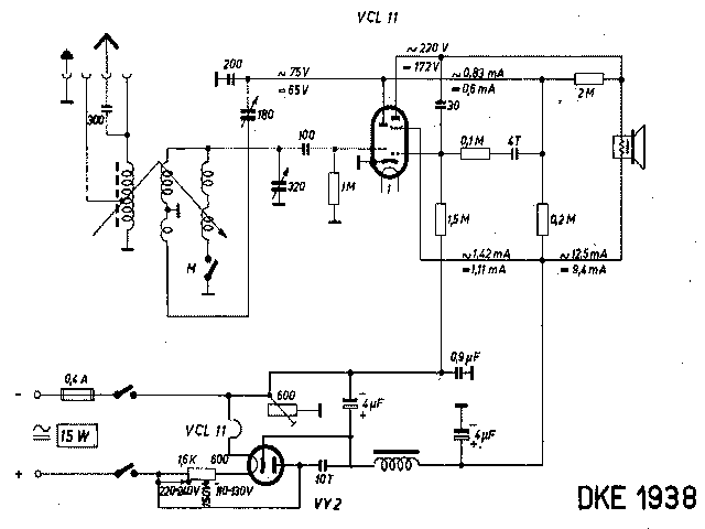 DKE 38 receiver - circuit diagram